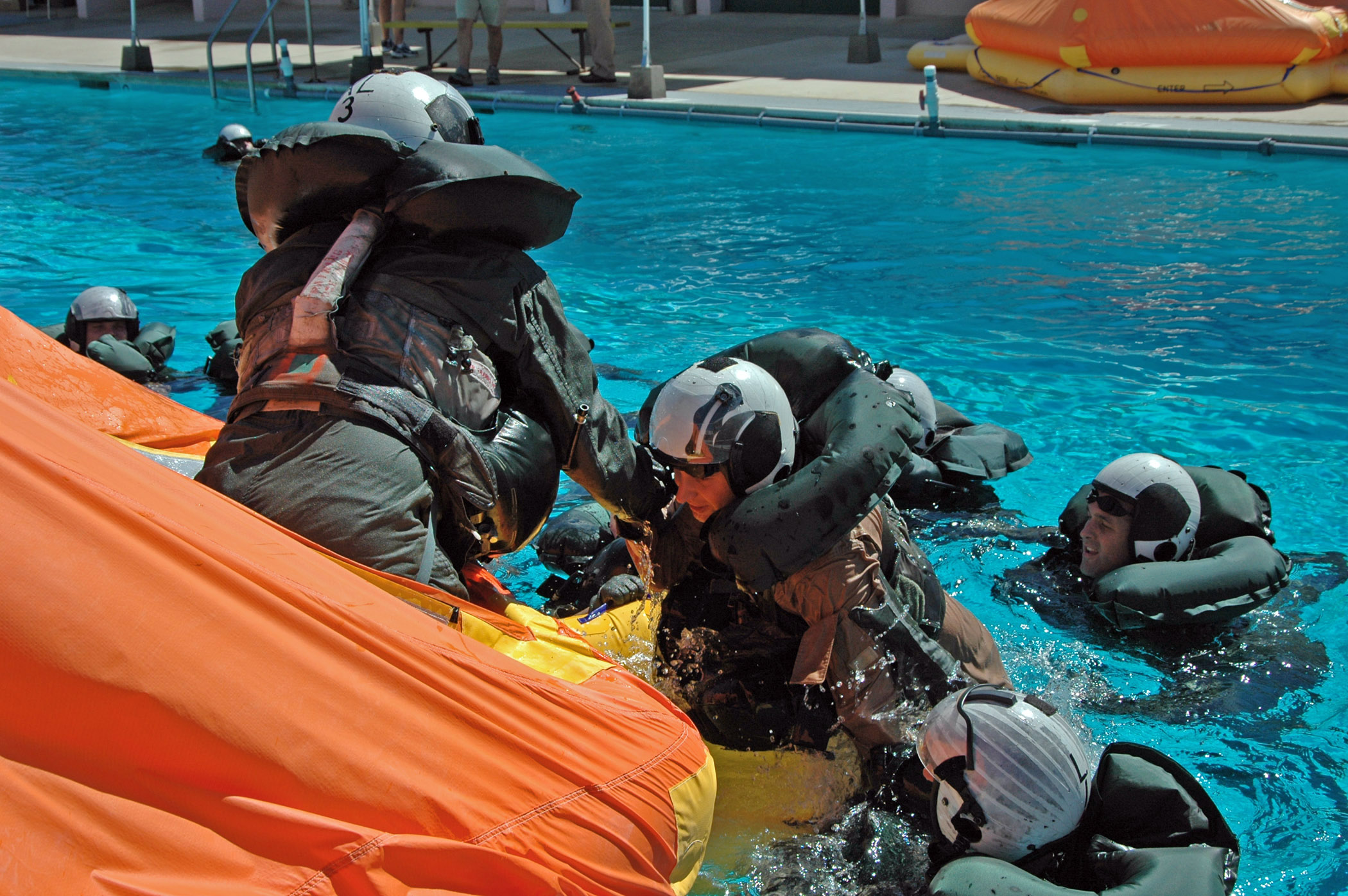 Miramar, Calif. (Sept. 27, 2005) – Navy air crewman help each other into a 12-man life raft to await a simulated rescue in the pool at Aviation Survival Training Center (ASTC) Miramar. ASTC conducts scheduled training for air crewmen on water survival to ensure they are prepared for emergency situations. U.S. Navy photo by Photographer's Mate 2nd Class Daniel R. Mennuto (RELEASED)